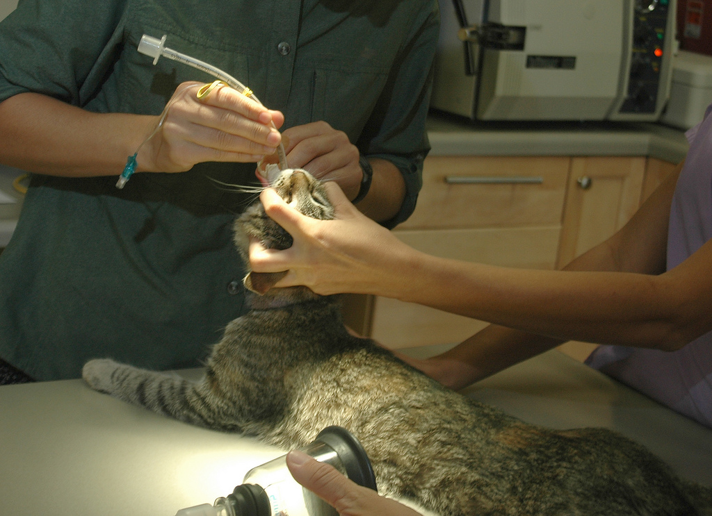 Cat intubated for spay/neuter surgery